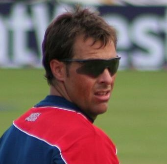 Marcus Trescothick warming up at Taunton Cricket Ground